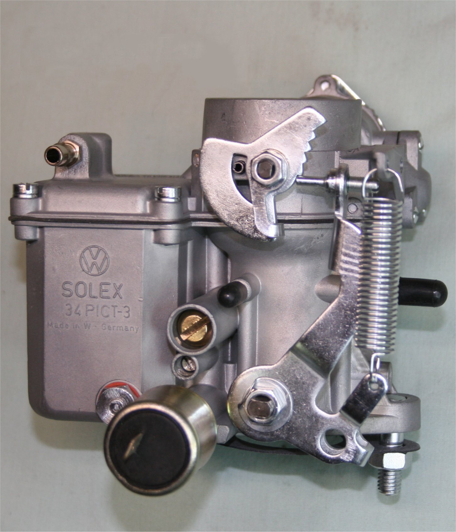 Volkswagen Solex 34PICT-3 carburetor as used on Air-cooled Beetles from 1970 upwards.